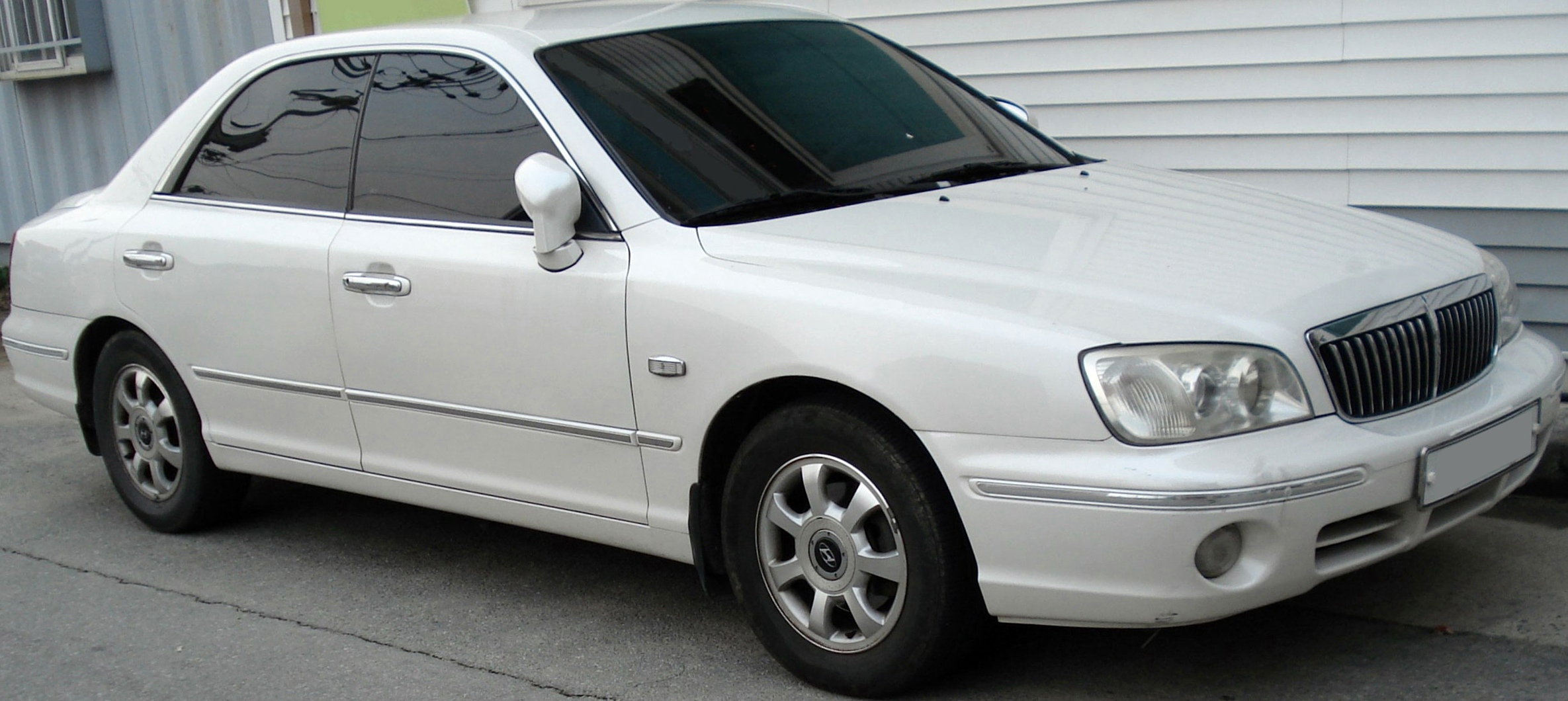 Hyundai Grandeur XG